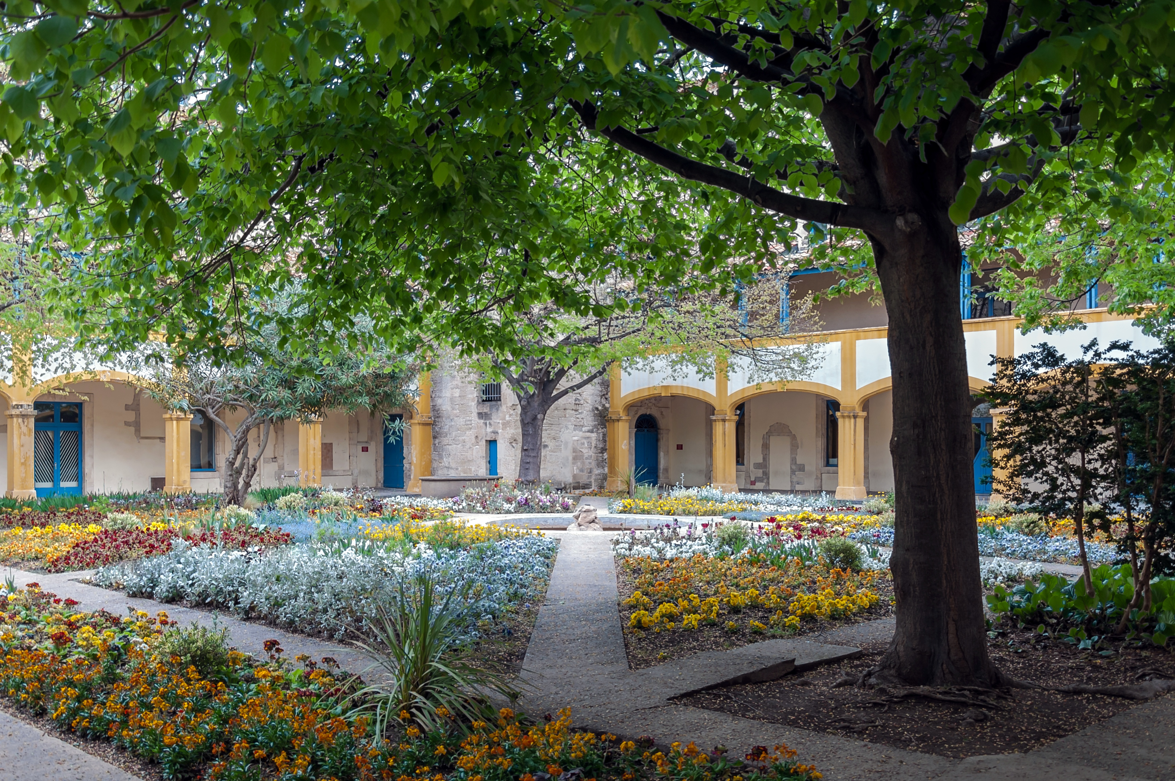 The garden of Hotel Dieu in Arles was painted in September 1888 by Vincent van Gogh when he stayed in this hospital.